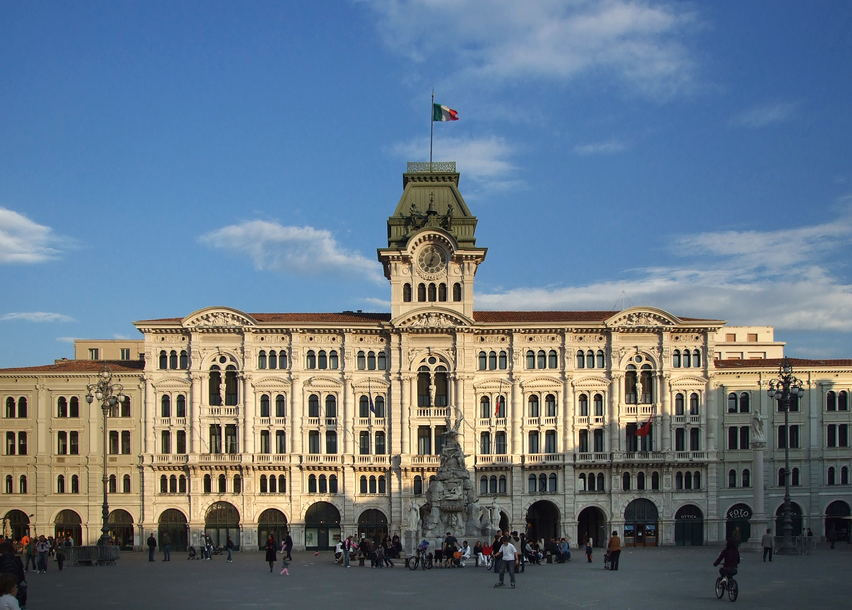 The Trieste City Hall (1875) on Piazza Unità d'Italia. Designed by the architect Giuseppe Bruni.